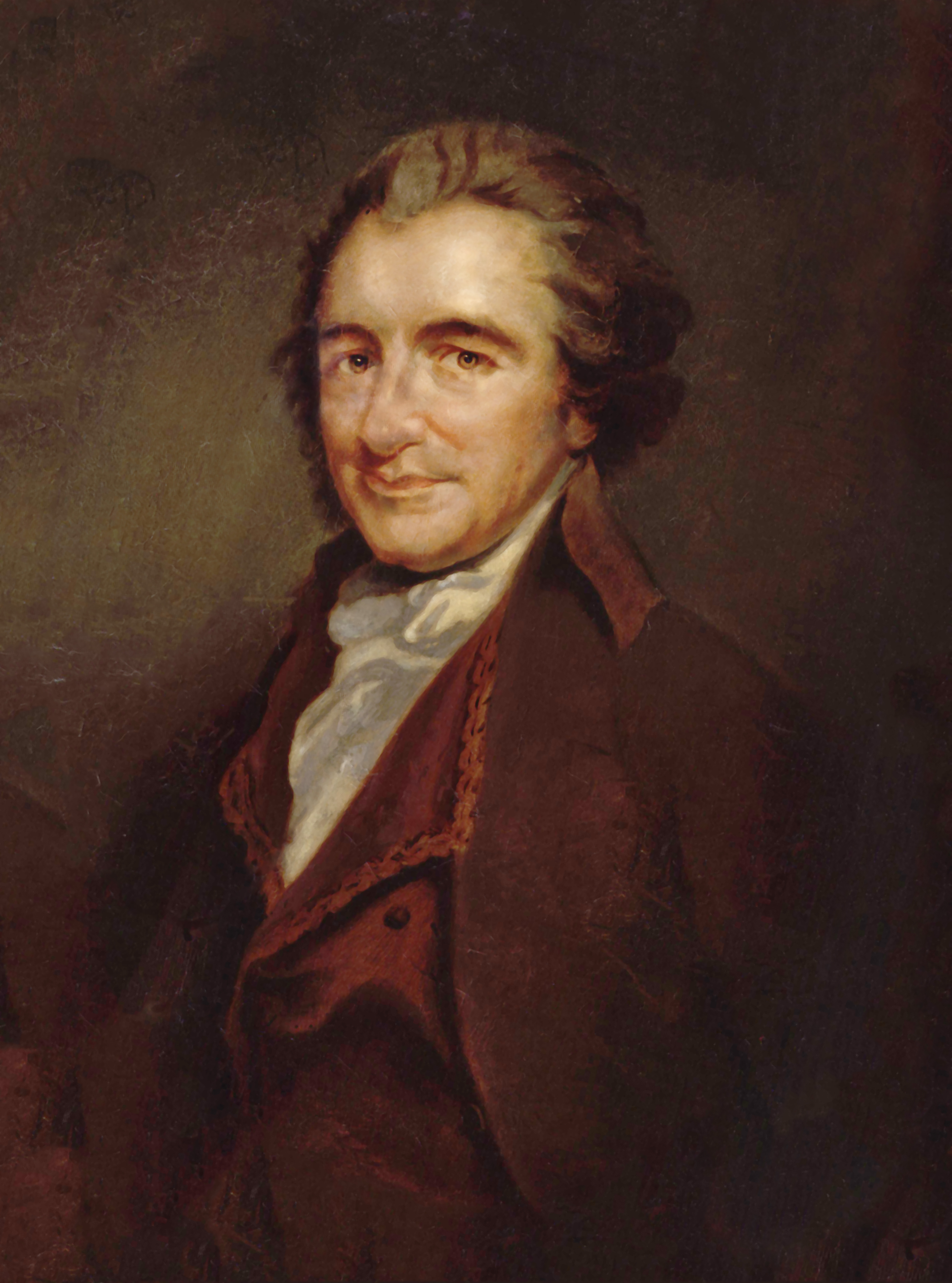 Thomas Paine, copy by Auguste Millière, after an engraving by William Sharp, after George Romney, circa 1876 (1792)